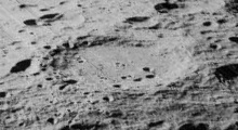 Oblique view of Sommerfeld, on the far side of the moon, facing west.